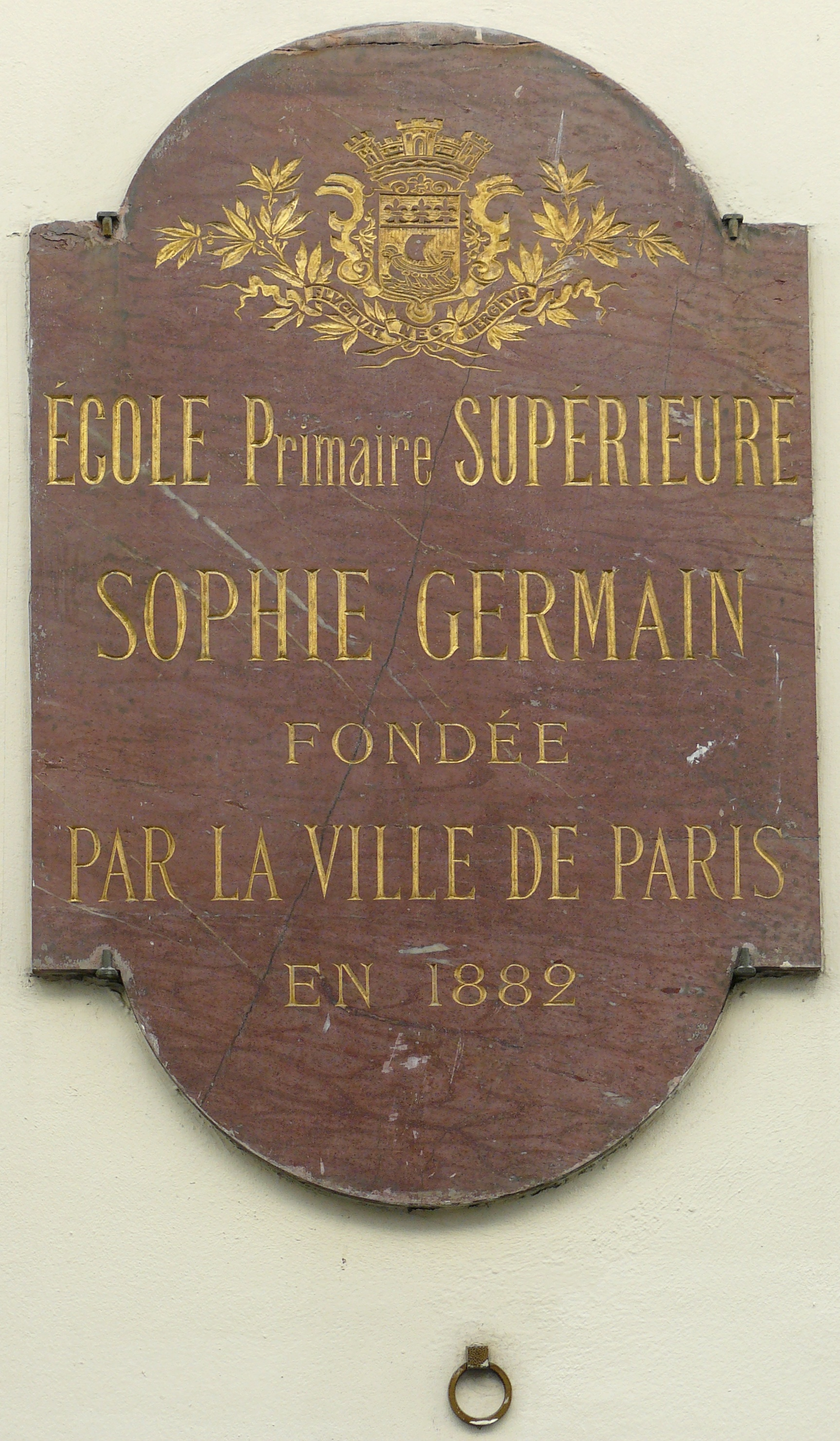 Plaque apposée sur le lycée Sophie Germain. C'est là qu'est ouverte le 1er mars 1882 la première école primaire supérieure de jeunes filles.